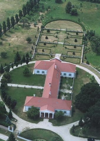 Kisasszond - castle, Hungary, aerialphotography. (Sárközy Mansion)